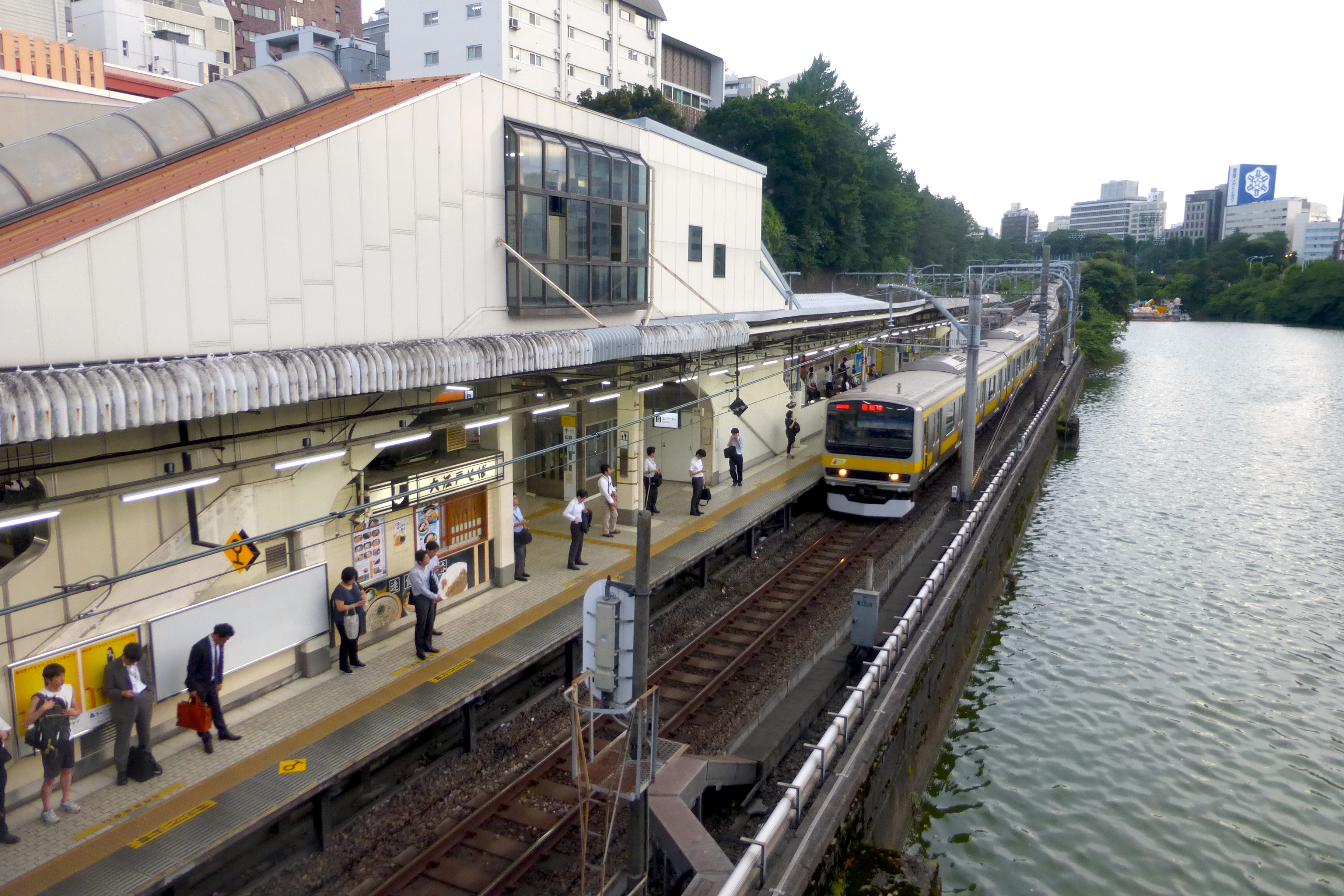 The JR East platform at Ichigaya Station platform with a Chuo-Sobu Line E231 series train arriving